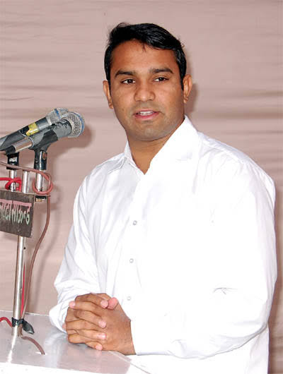 This is pic of abhishek matoria mla from nohar Assembly in rajasthan